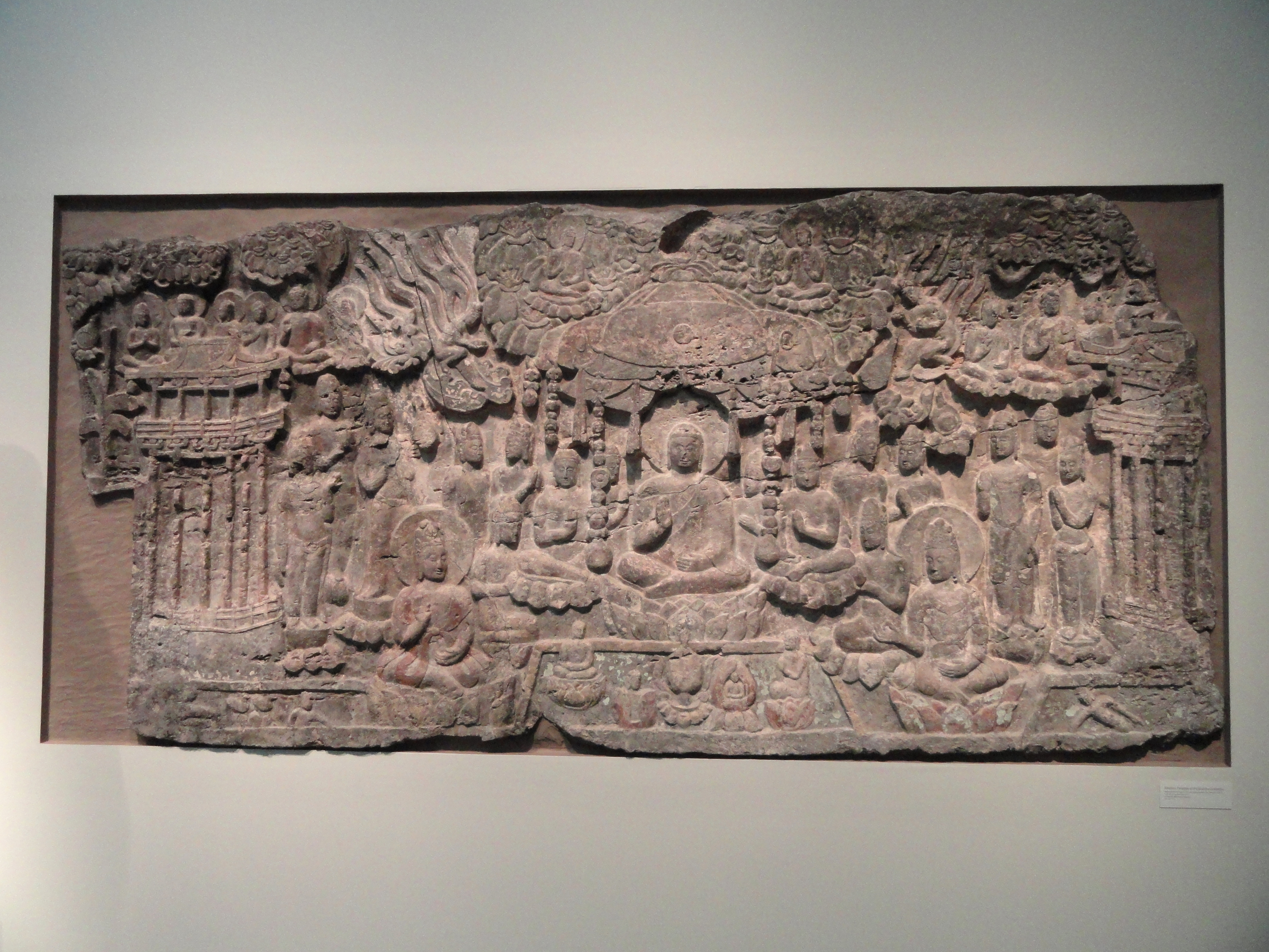 Exhibit in the Freer Gallery of Art, Washington, DC, USA. This artwork is old enough so that it is in the public domain.